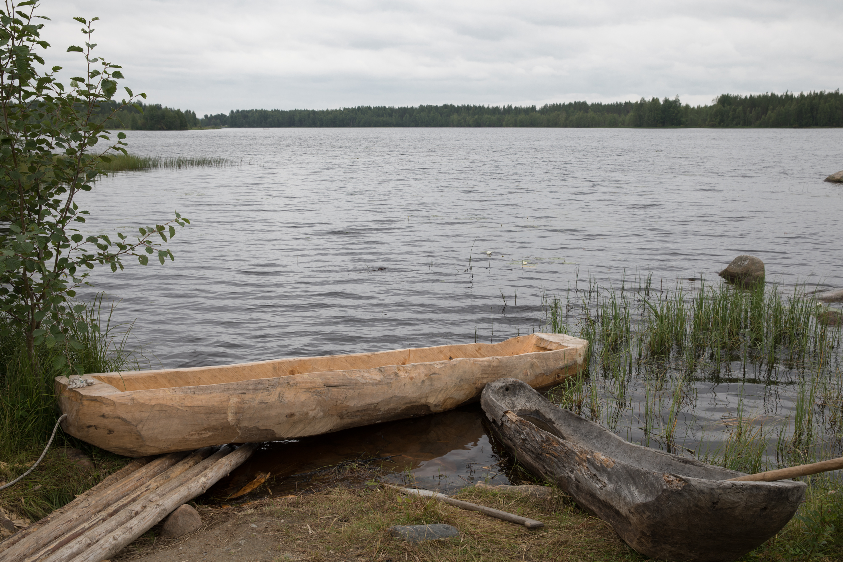 Dugouts at Kierikki Stone Age Centre, Yli-Ii, Oulu